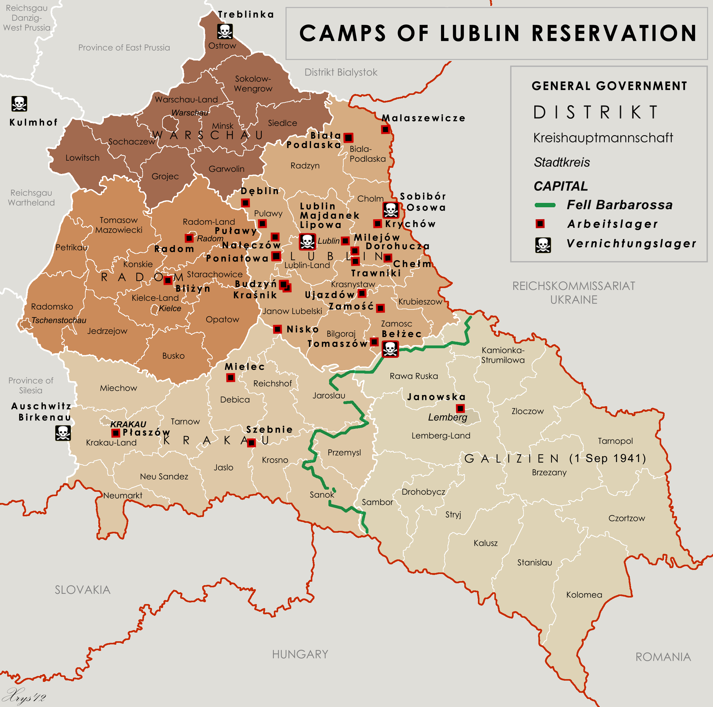 Map of the administrative areas of the General Government